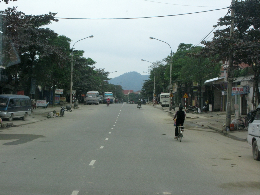 A street in Tây Sơn Town, Hương Sơn District, Hà Tĩnh Province, Việt Nam.